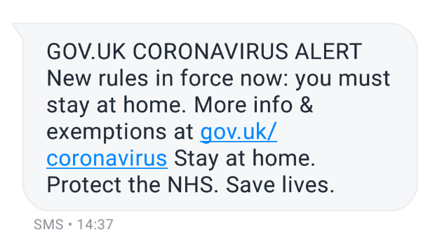 Screenshot of SMS message from GOV.UK advising recipients not to leave their homes.